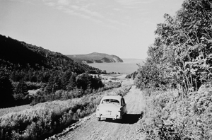 Herring Cove and Owls Head from Park Road, Original Negative, Black and White, N.04.40.08.02.05